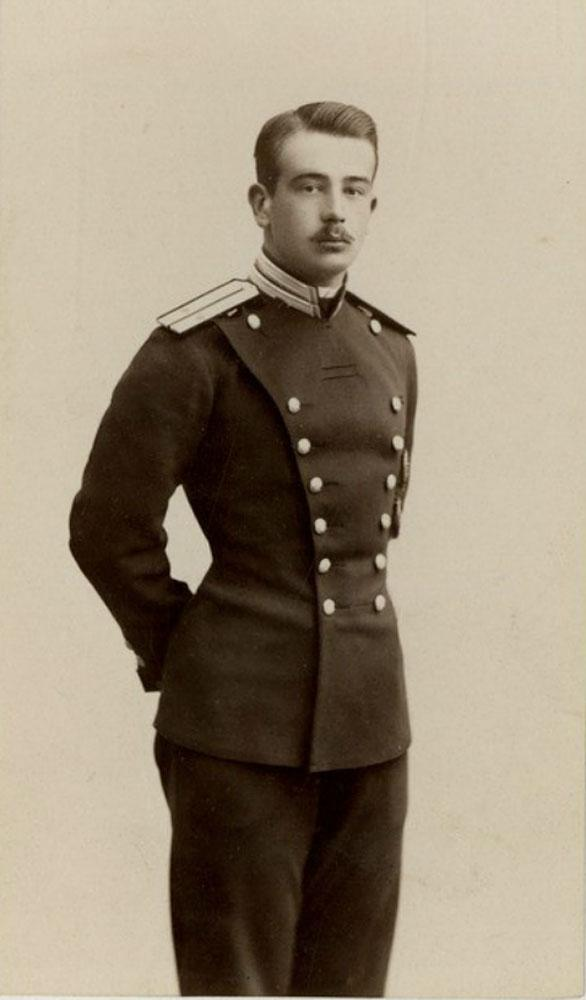 Grand Duke Boris Vladimirovich. - The end of the 1890s. - Photo by Gorodetsky, LS